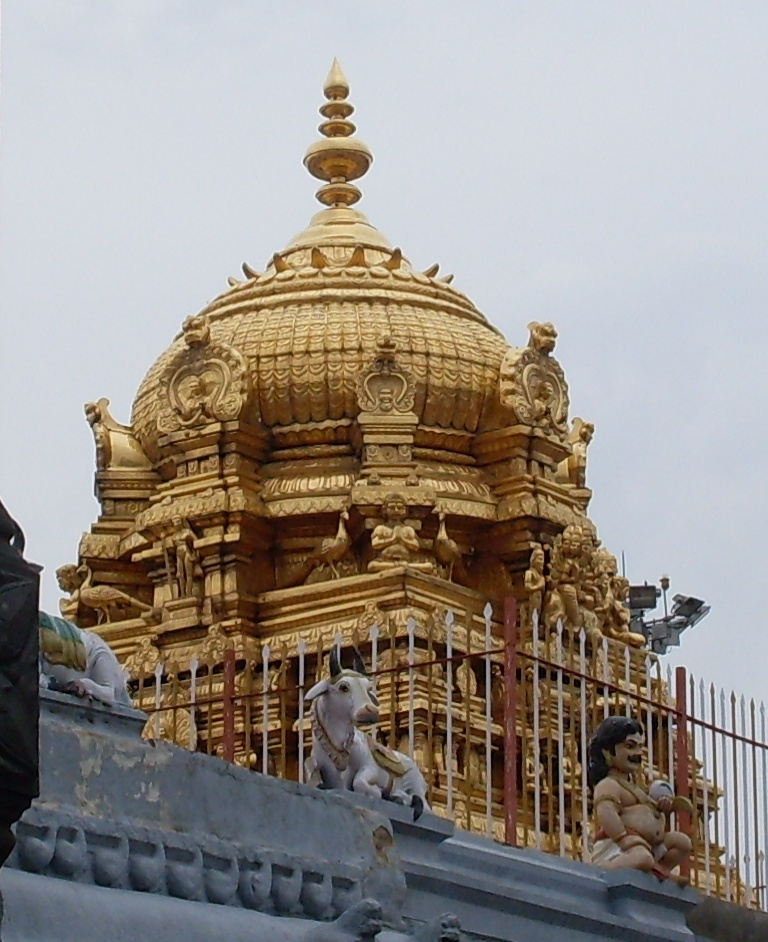 Palani Thanga Poguram